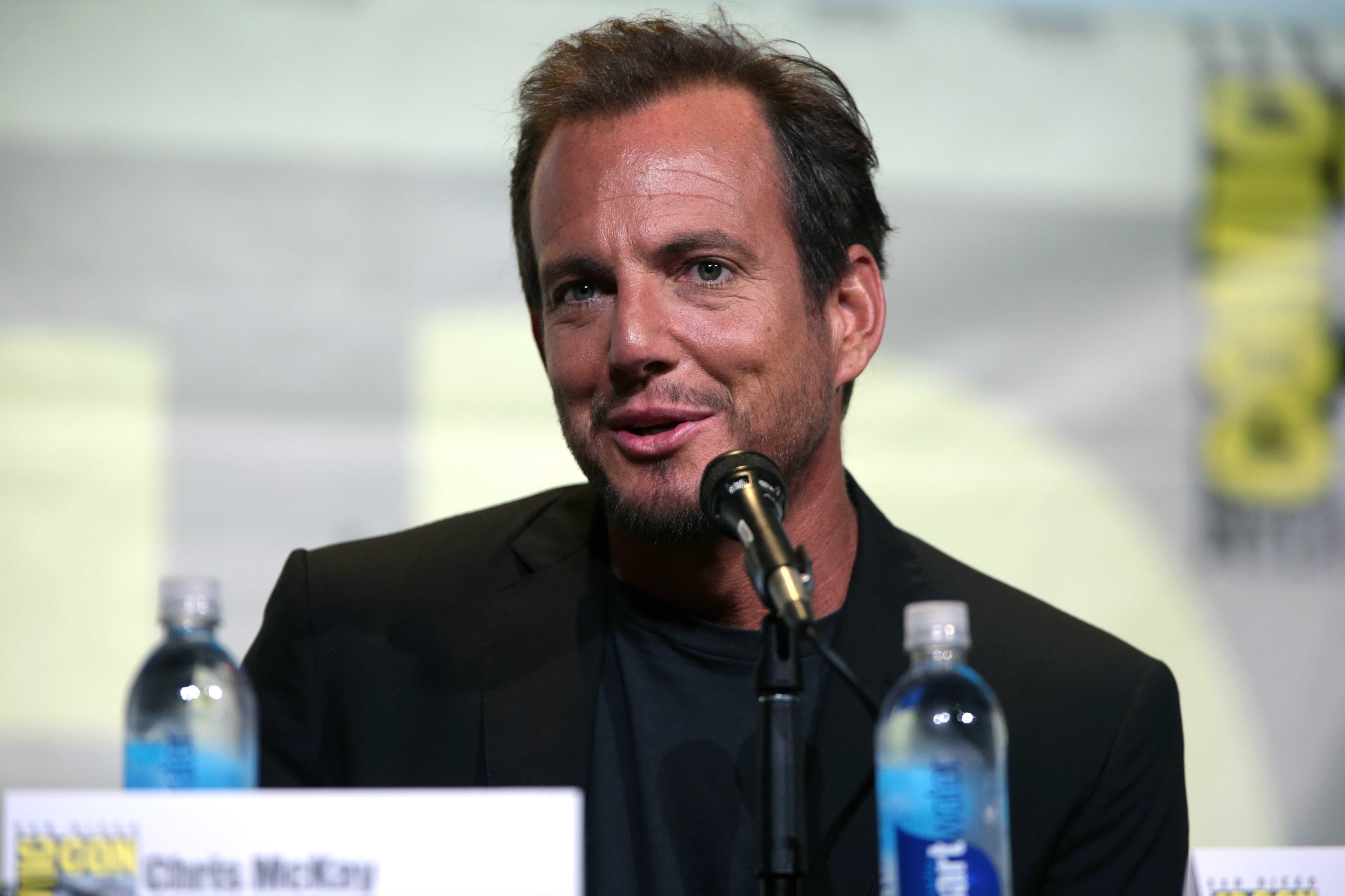 Will Arnett speaking at the 2016 San Diego Comic Con International, for "The LEGO Batman Movie", at the San Diego Convention Center in San Diego, California.